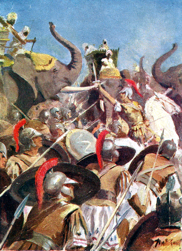 This history of India begins well before era of British colonization, during the age of the invasion of Alexander the Great, which was the west's first contact with the east. For much of the next millennium various Moslem lords rules parts of northern India. Finally, in the eighteenth century, France and Britain contested for control of the Asian trade centered in India, and for the following two centuries, India was Britain's most important colony.